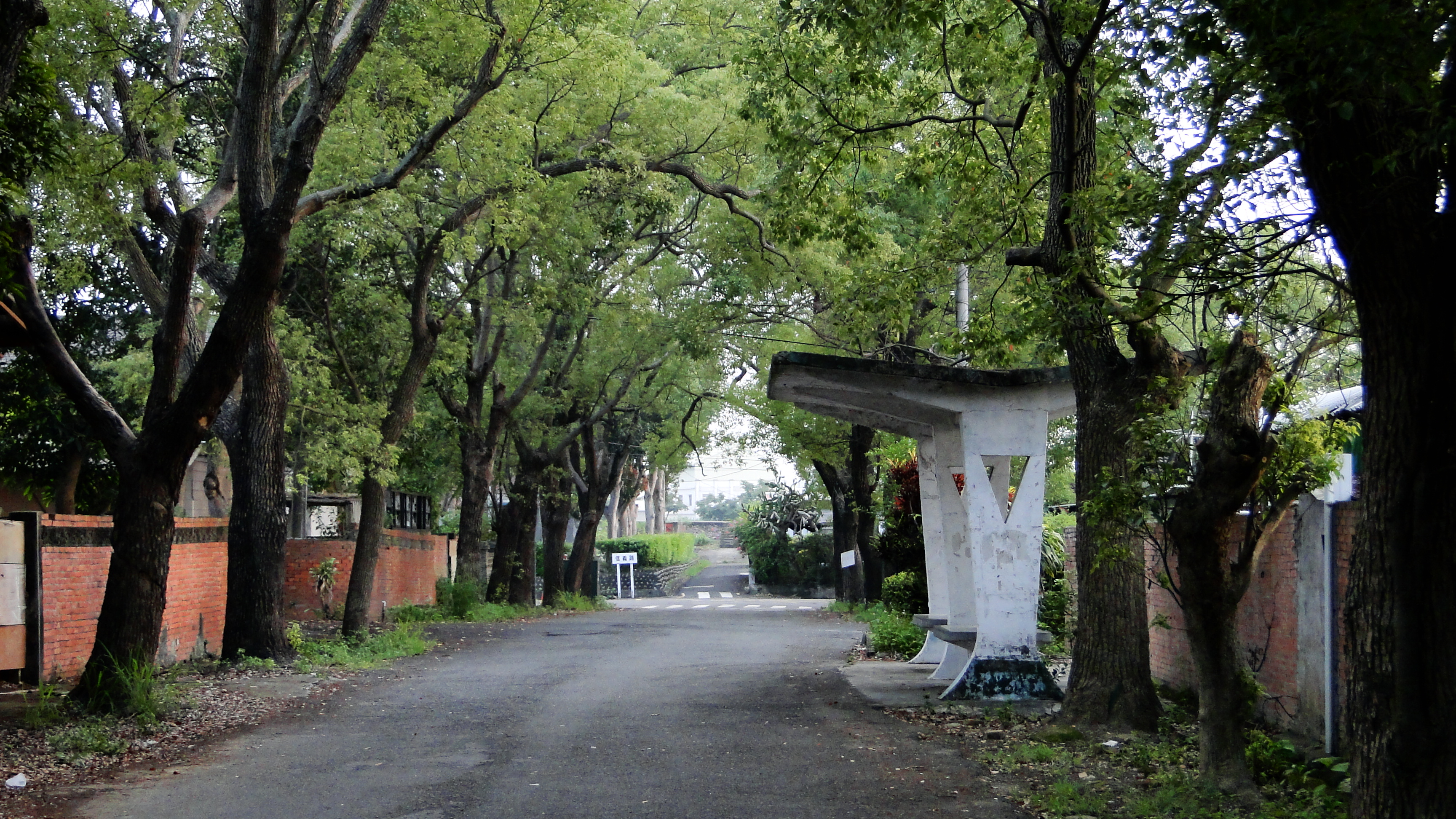 Bus stop and Min-quan Road, Guangfu New Village, Wufeng Township, Taichung County.中文（台灣）: 臺中縣霧峰鄉光復新村民權路及公車亭。